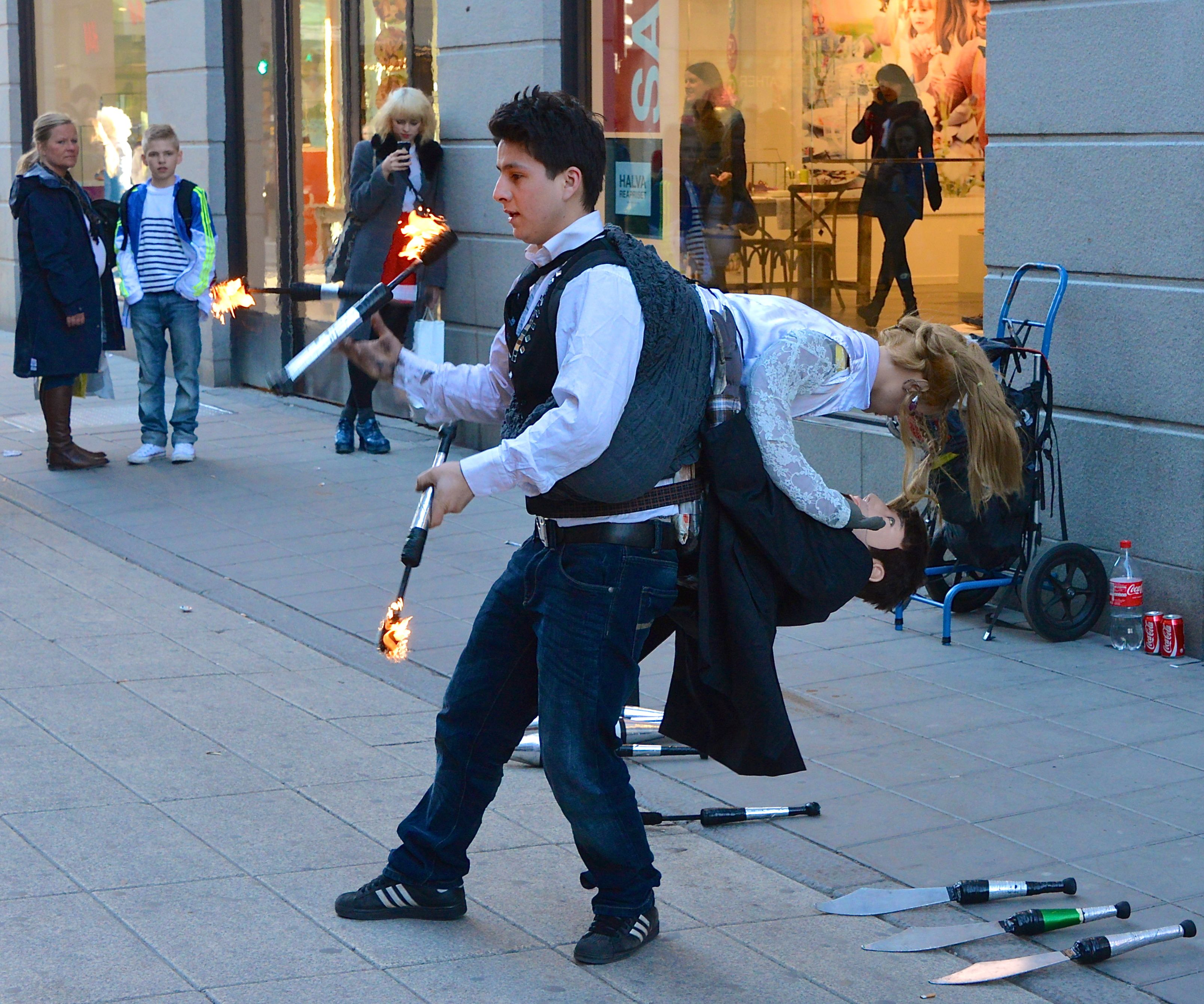 Street artist at Drottninggatan in Stockholm on June 6 2013.